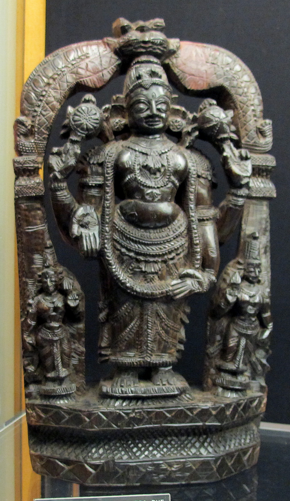 Museo di storia naturale (Florence) - Anthropology and Ethnography section - India